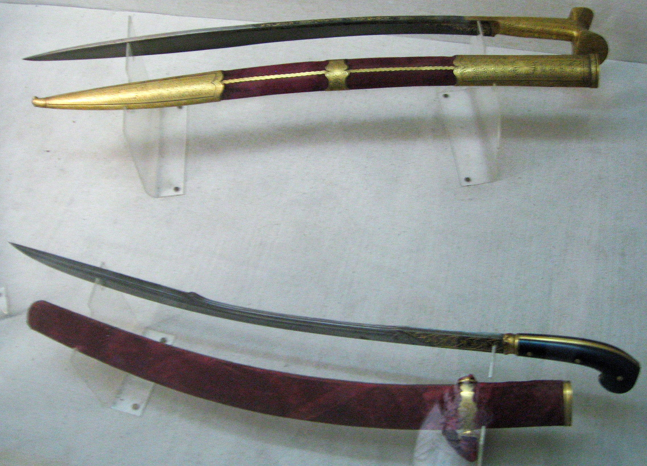 Turkish yataghans 17th-19th century.